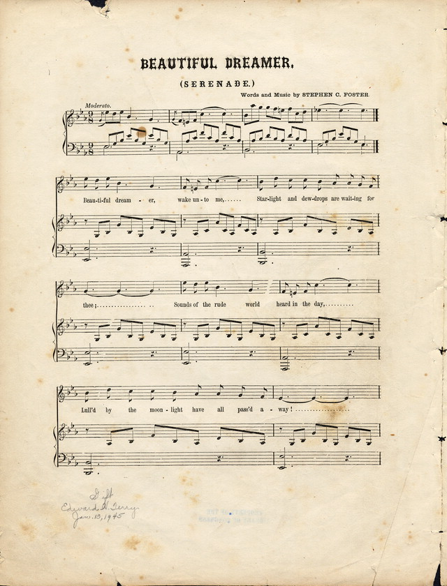 Sheet music: "Beauiful Dreamer" by Stephen Foster